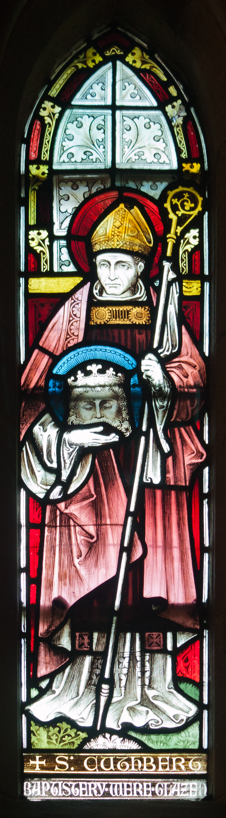 Fifth (from left) stained glass window in the north wall of the baptistery, depicting Saint Cuthbert. Presented by George Edmund Street (1824–1881) in memory of his wife, executed by Clayton & Bell, London.